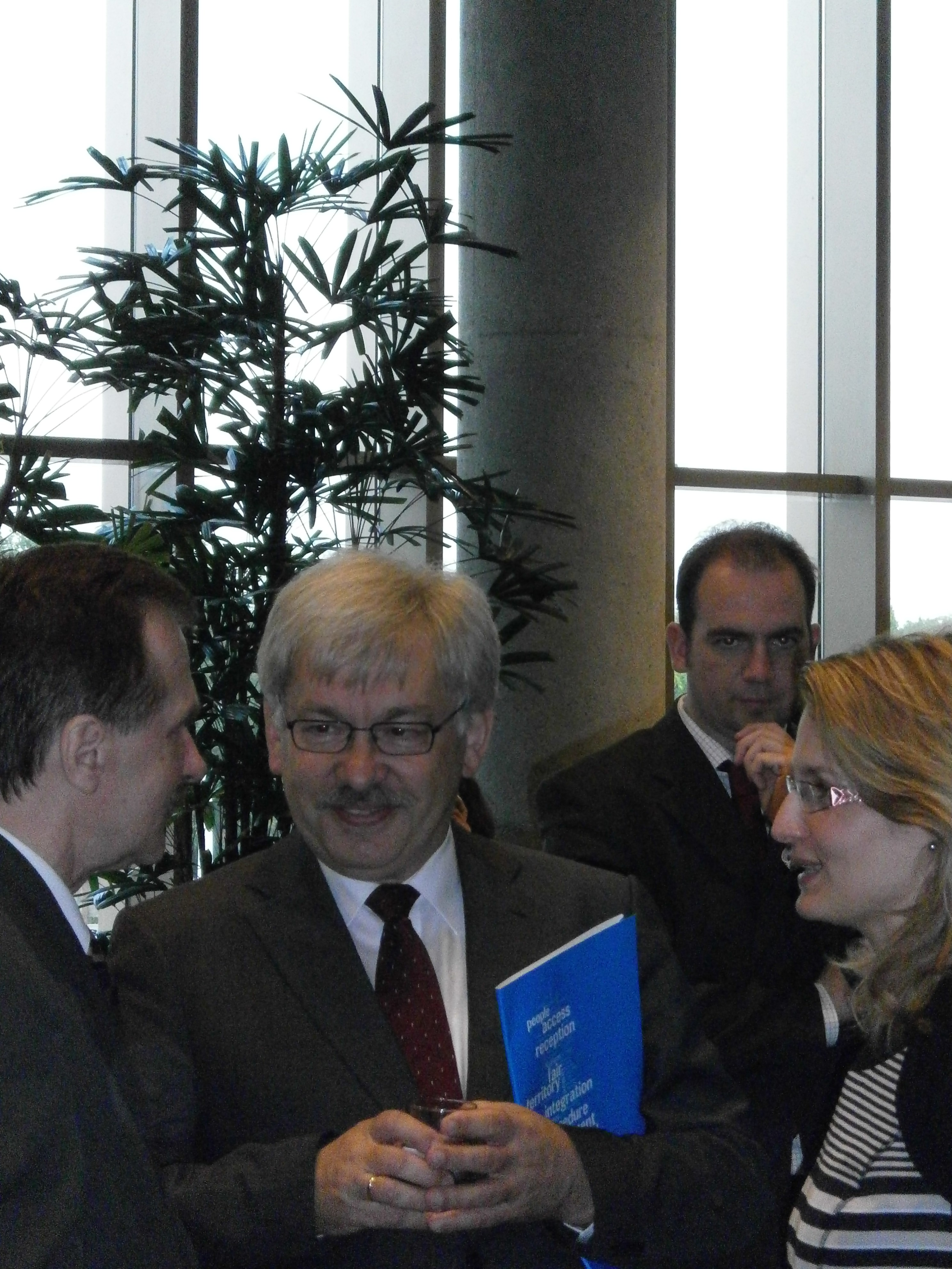 UNHCR Central Europe Representation, 2012